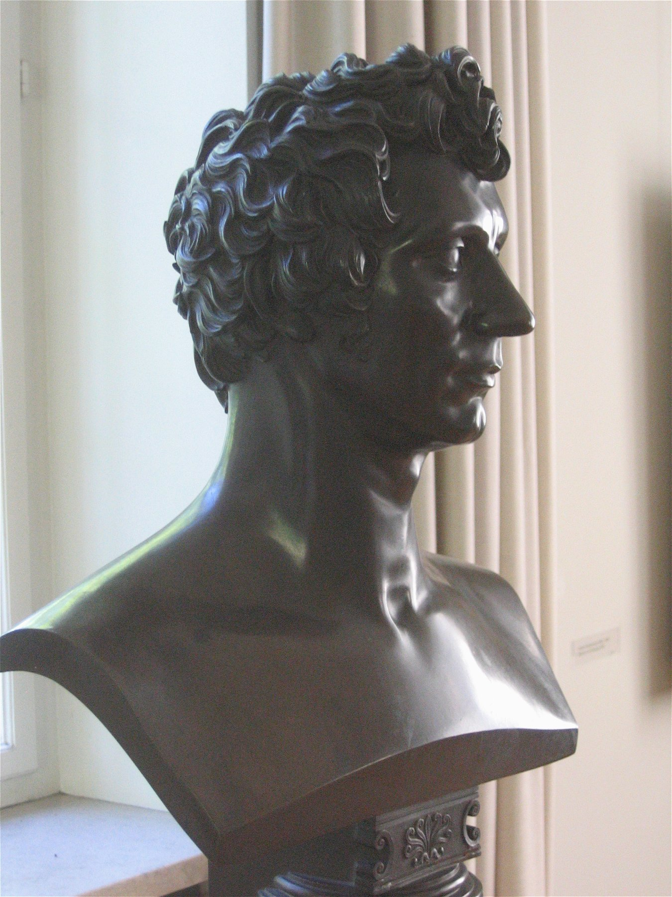 Bust of Leo von Klenze